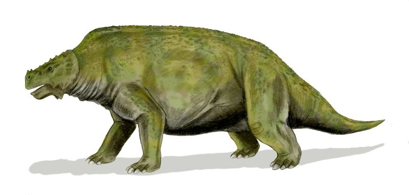 Scutosaurus karpinskii, a pareiasaur from the Late Permian of Russia, pencil drawing (reconstruction after Carroll, 1988)